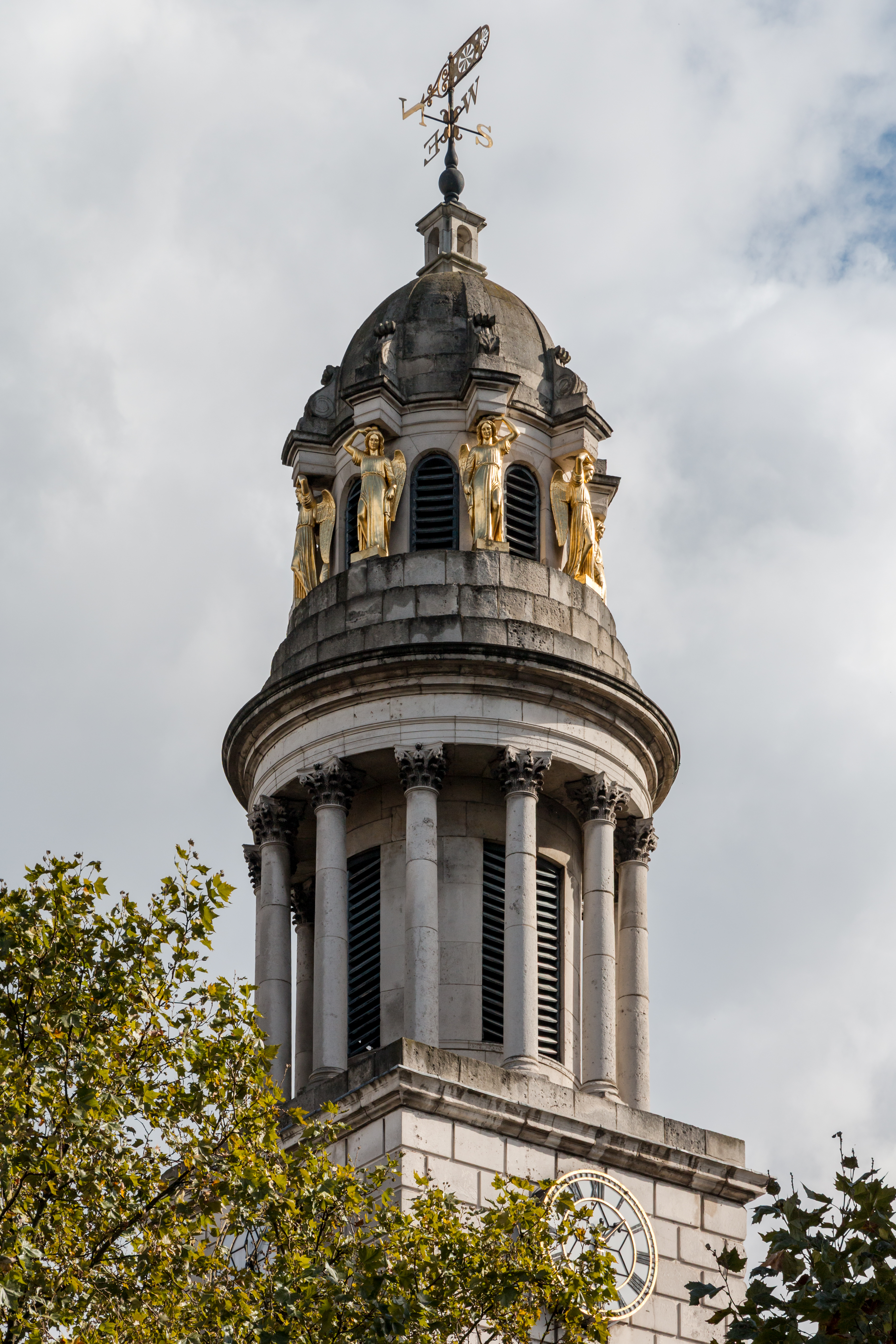 St. Marylebone Parish Church, London, England, United Kingdom Sculpture TitleSkulpturenArtistUnknown artistDateUnknown dateUnknown date